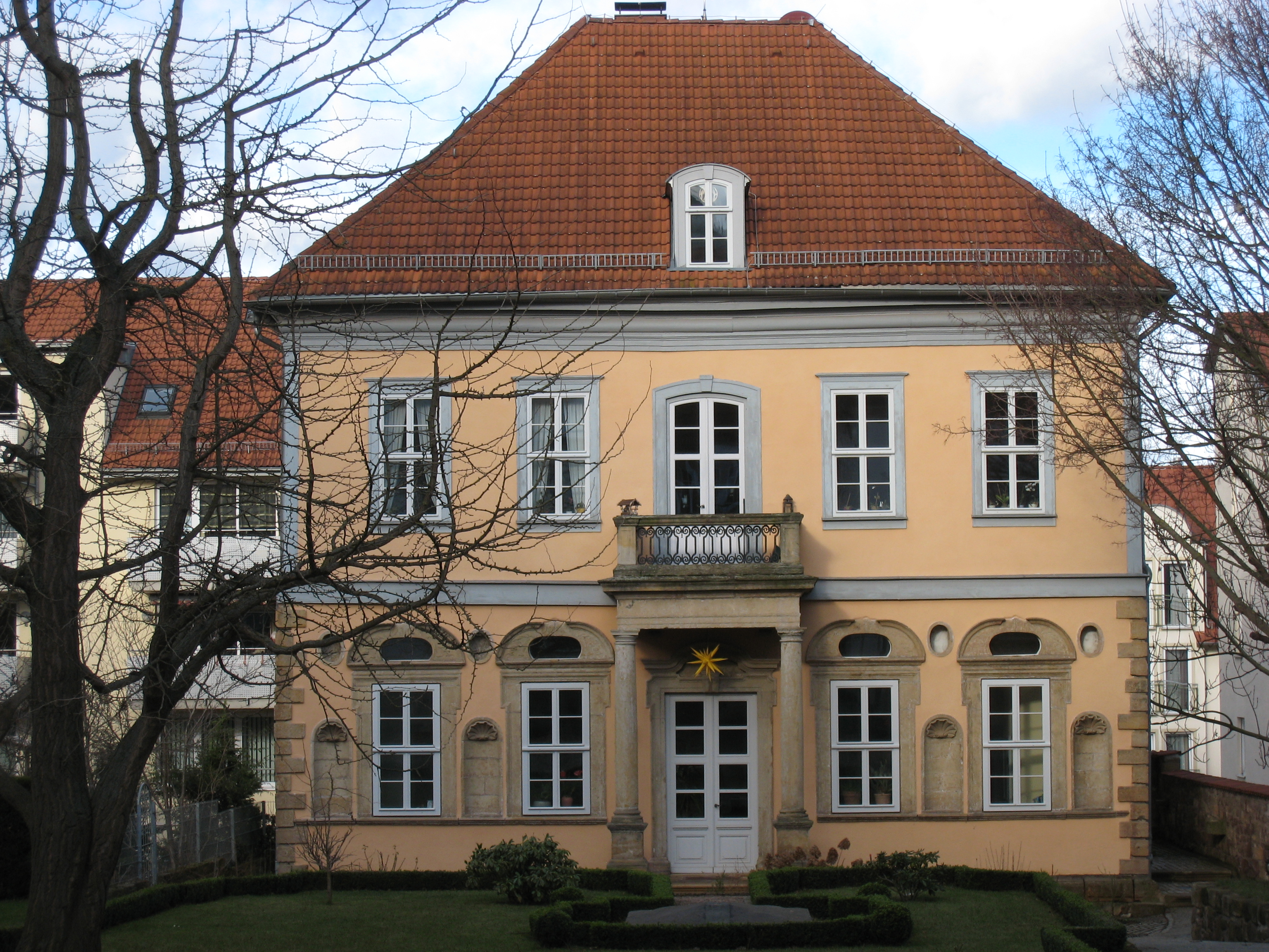 Frankenberg garden house Gotha, Frankenbergsches Gartenhaus, Lucas-Cranach-Strasse 9a